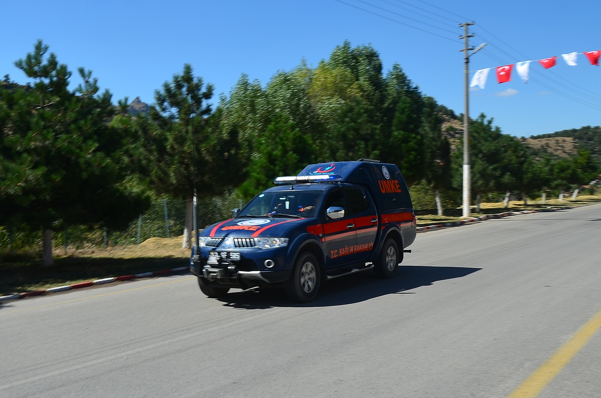 UMKE (National Medical Rescue Team of Turkey) vehicle Mitsubishi L200